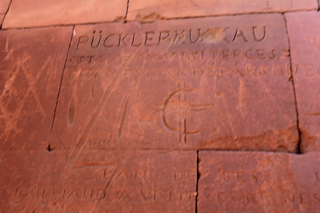 Pueckler's name carved as griffiti in th Great Enclosure of Musawwarat es-Sufra